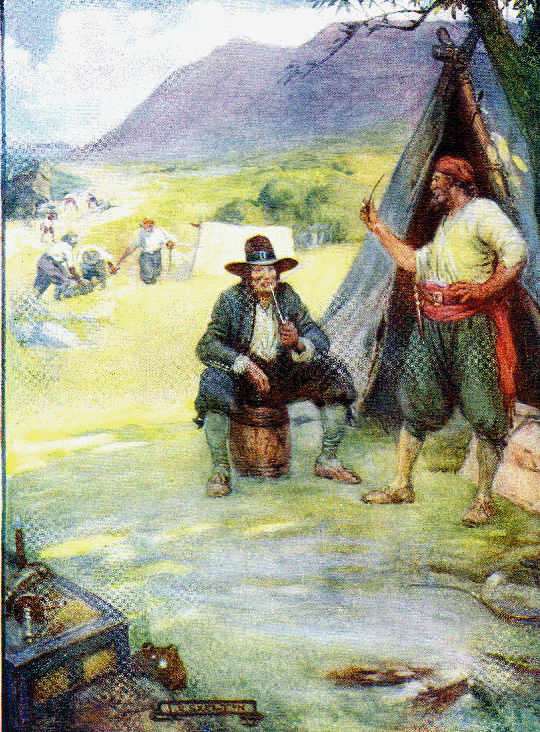 This book provides a vivid and picturesque account of the principal events in the building of the British Empire. It traces the development of the British colonies from the days of discovery and exploration through settlement and establishment of government. Included are stories of the five chief portions of the British Empire: Canada, Australia, New Zealand, South Africa, and India.